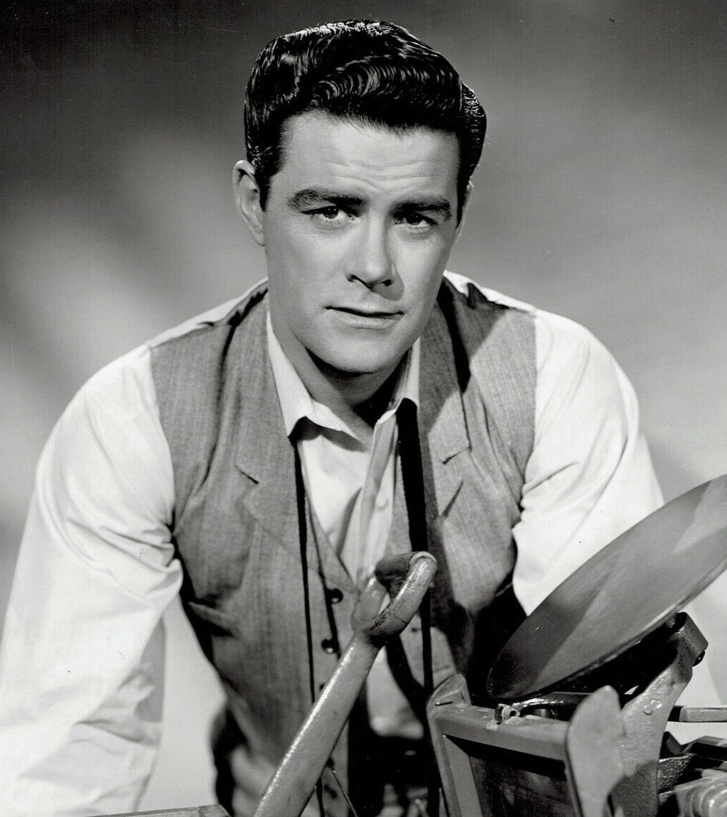 Portrait of Jeff Richards in Jefferson Drum